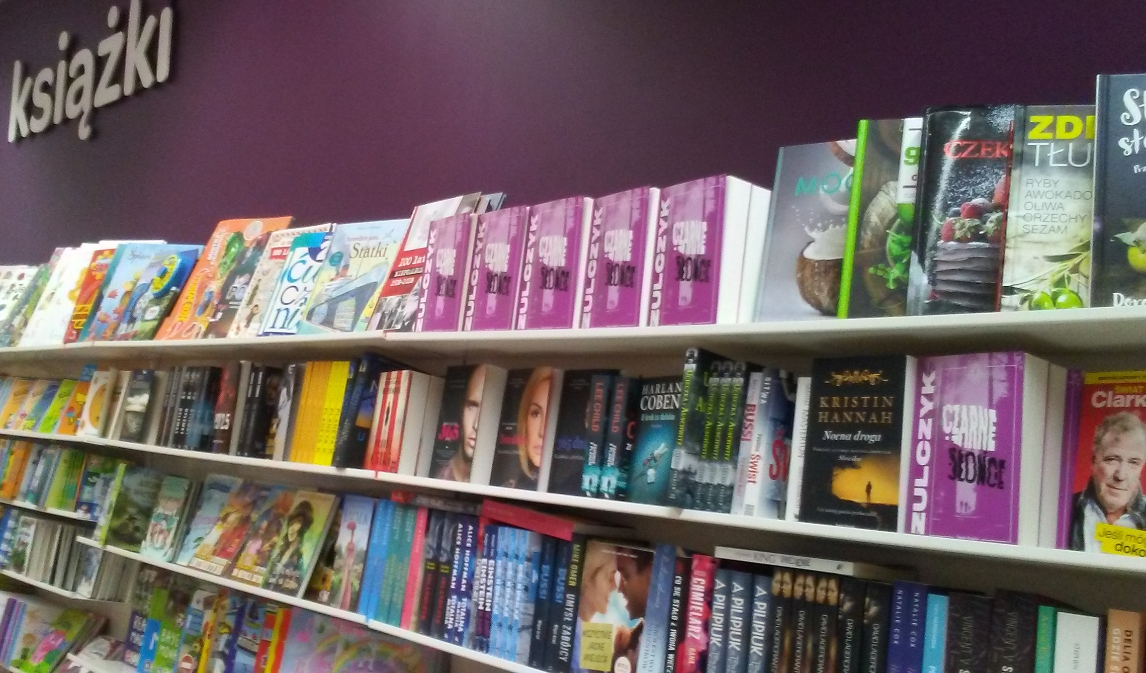 Bookcase in Carrefour store in Tomaszów Mazowiecki, June 2020